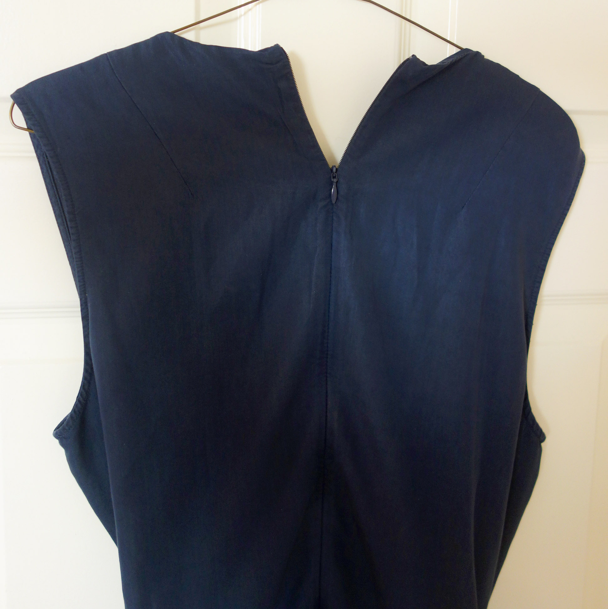 The upper back of a sleeveless navy blue dress, with a zip closure, partially open.